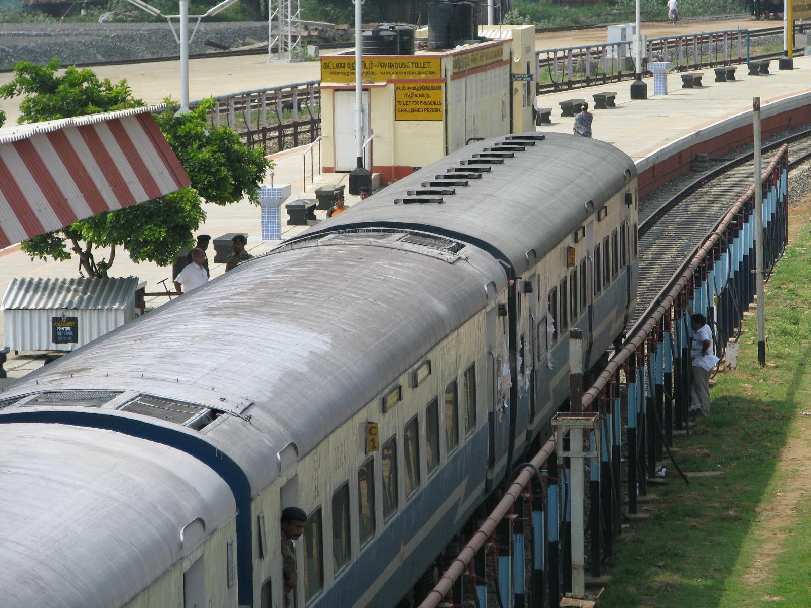 Mayiladuthurai Railway Junction